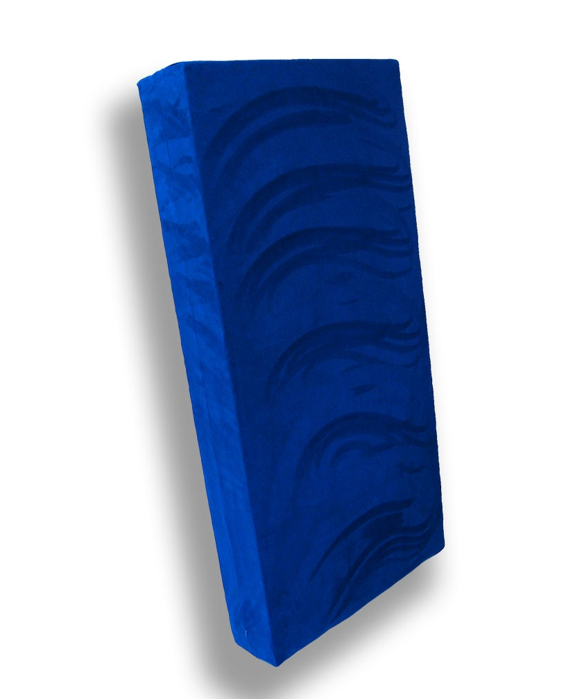 Bass trap - upholstered, mineral fiber core, porous acoustic absorber